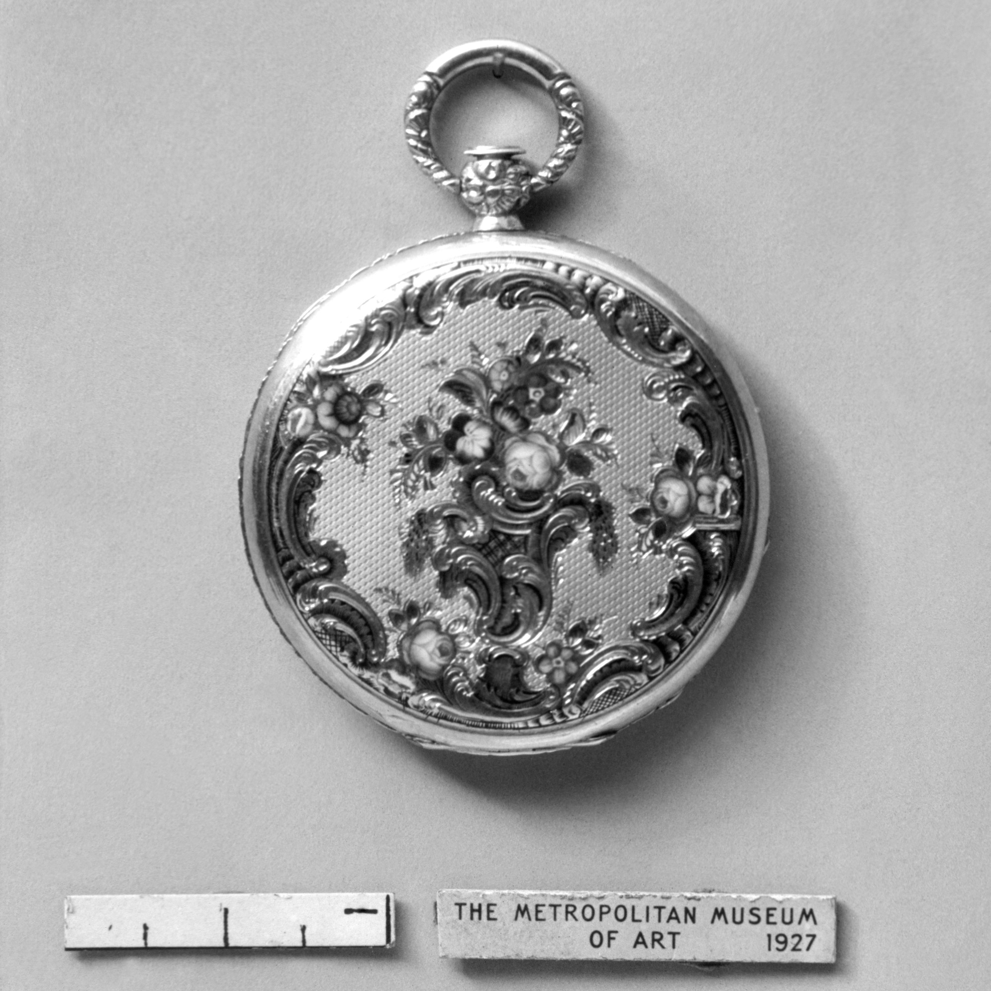 French, Paris; Watch; Horology